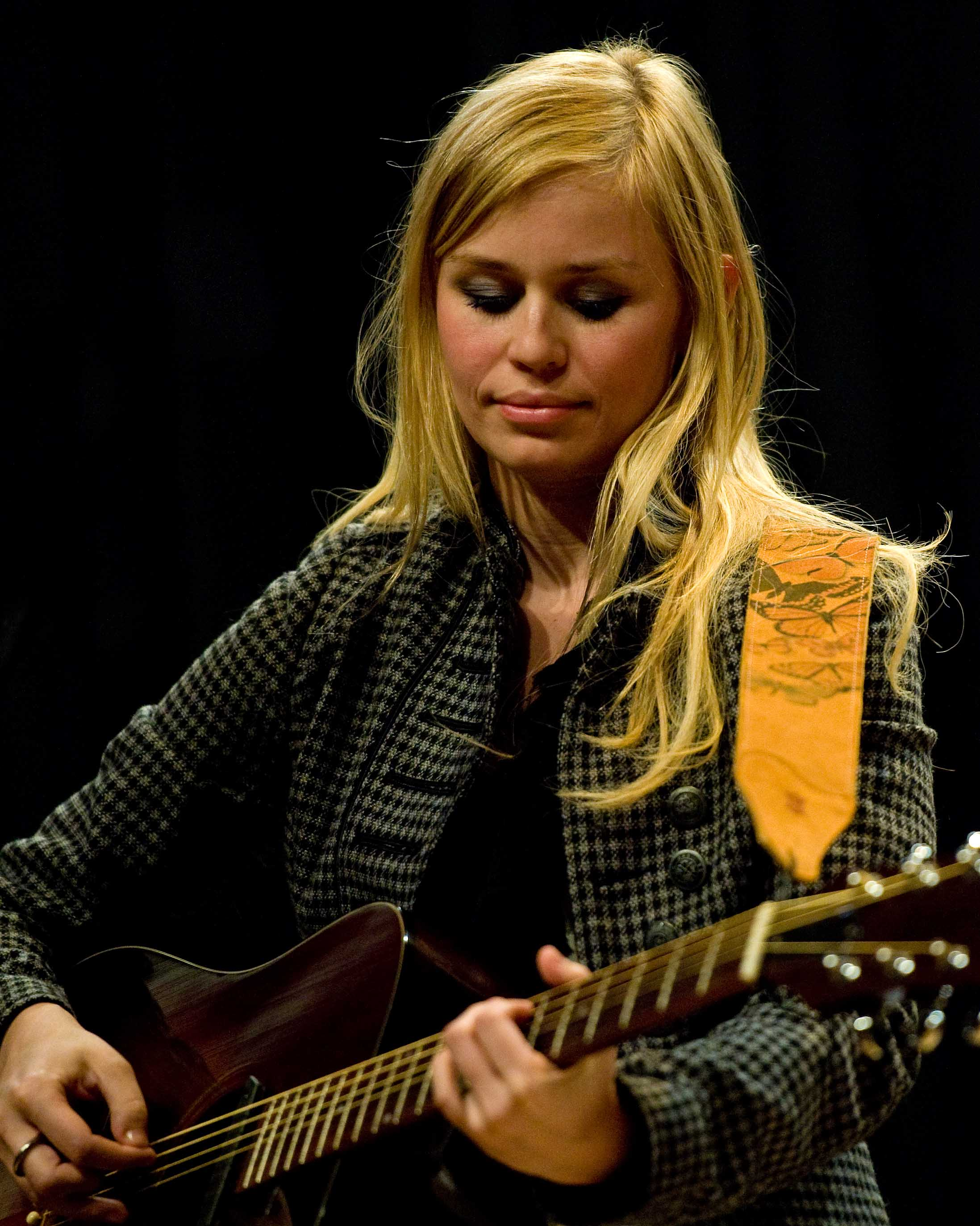 Sofia Talvik performs on March 6, 2010 at the Nordic Heritage Museum in Seattle, Washington